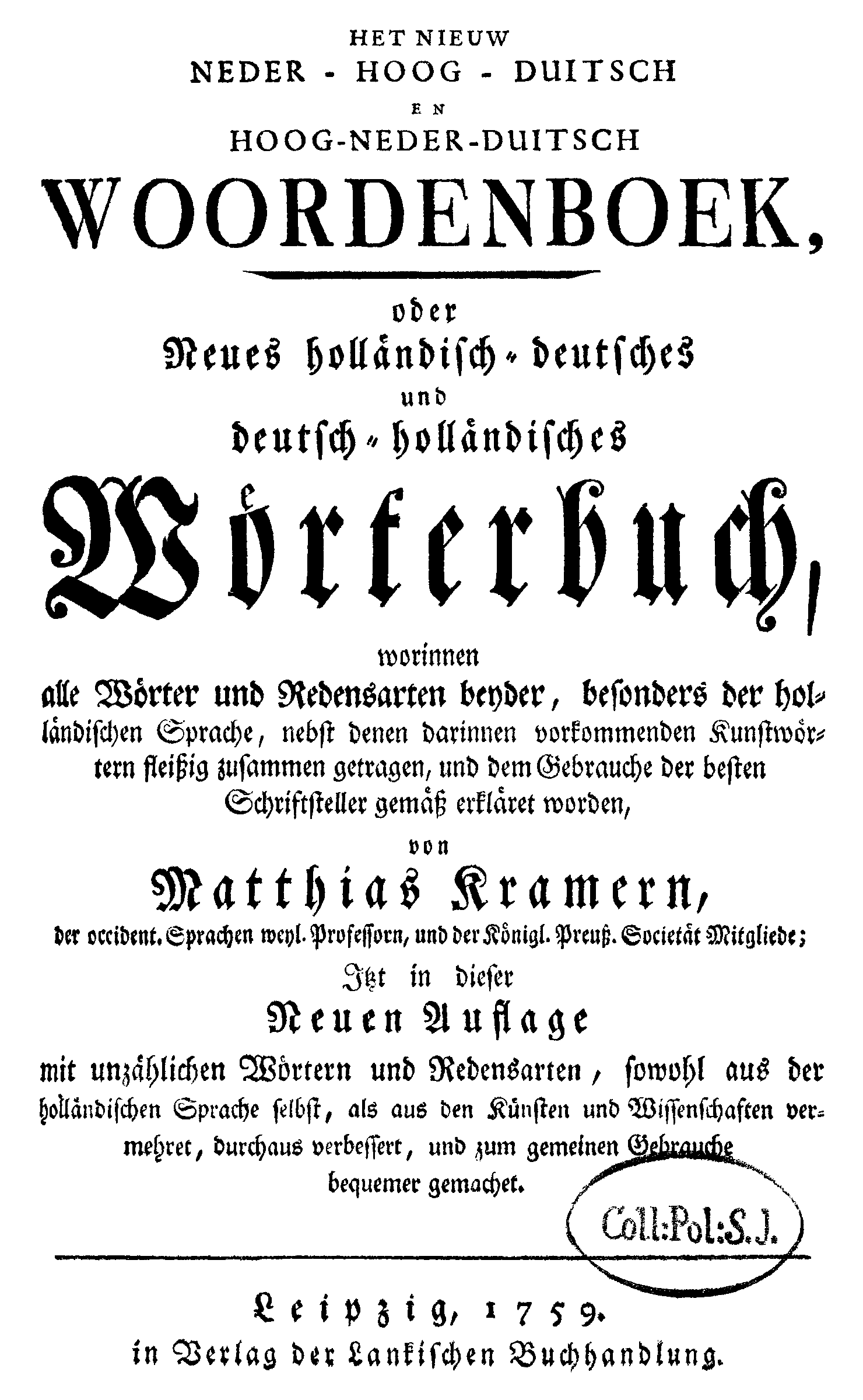 New Dutch-German and German-Dutch dictionary. Leipzig, 1759. By Matthias Kramer (1640–1729).